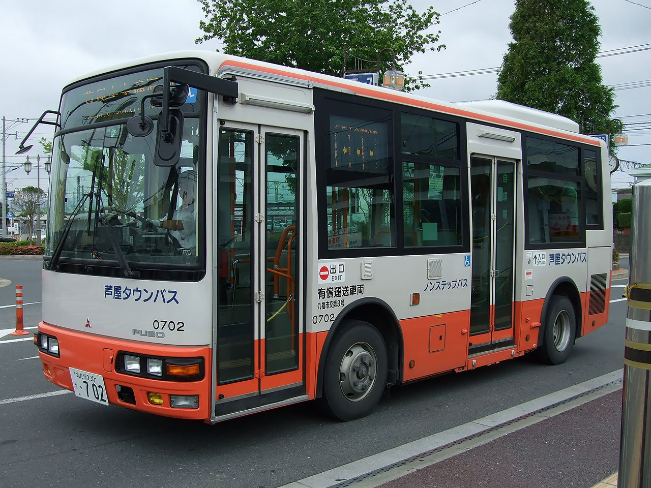 Ashiya Town community bus Company:Ashiya Town, Fukuoka, Japan Use:transit bus Car license:北九州230 さ・702 Code:0702 Chassis manufacturer:Mitsubishi Fuso Truck and Bus Corporation Coachbuilder:Mitsubishi Fuso Bus Manufacturing Location:at Ongagawa Station, Onga Town, Fukuoka, Japan